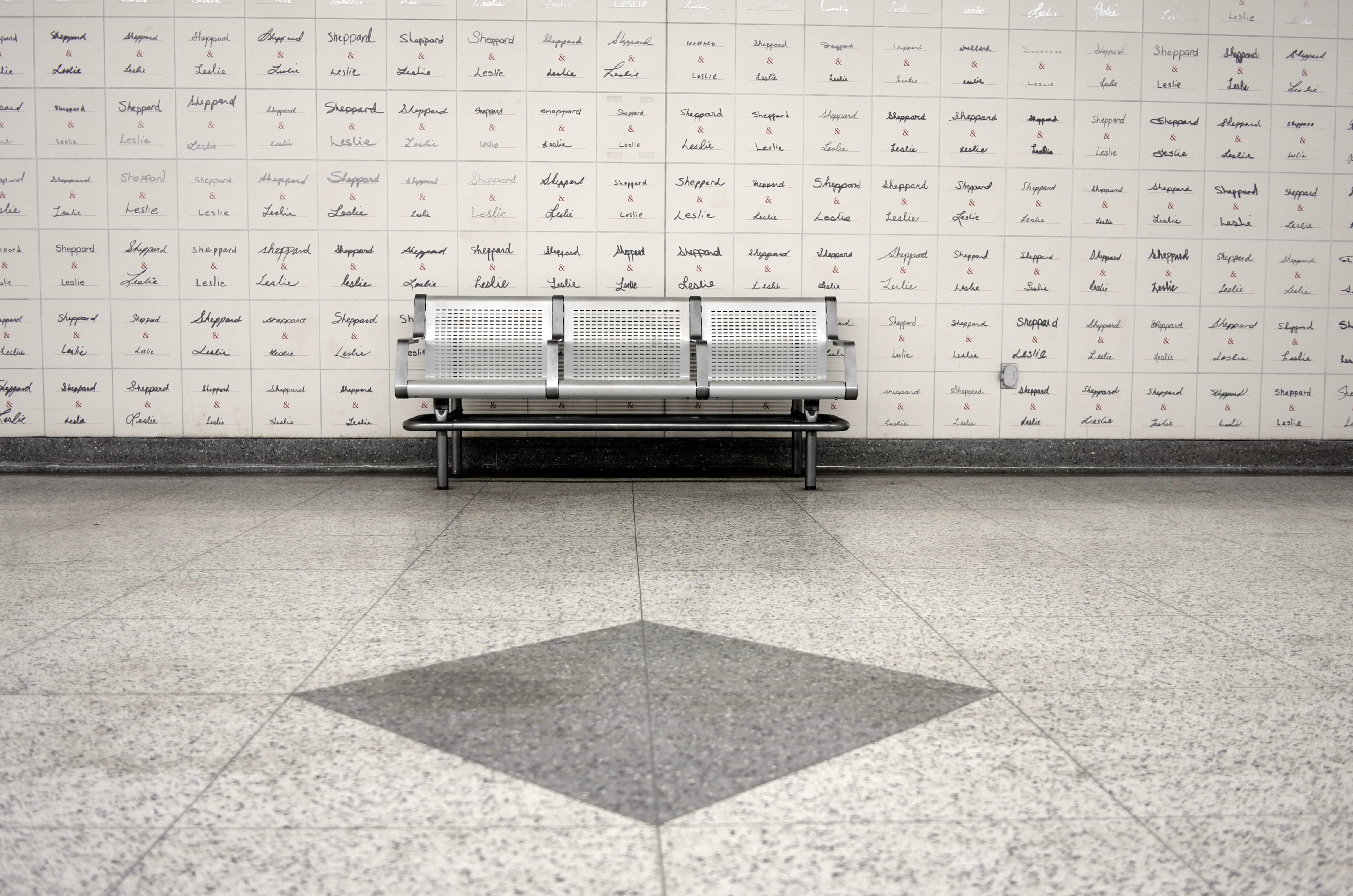 Leslie TTC subway station in Toronto